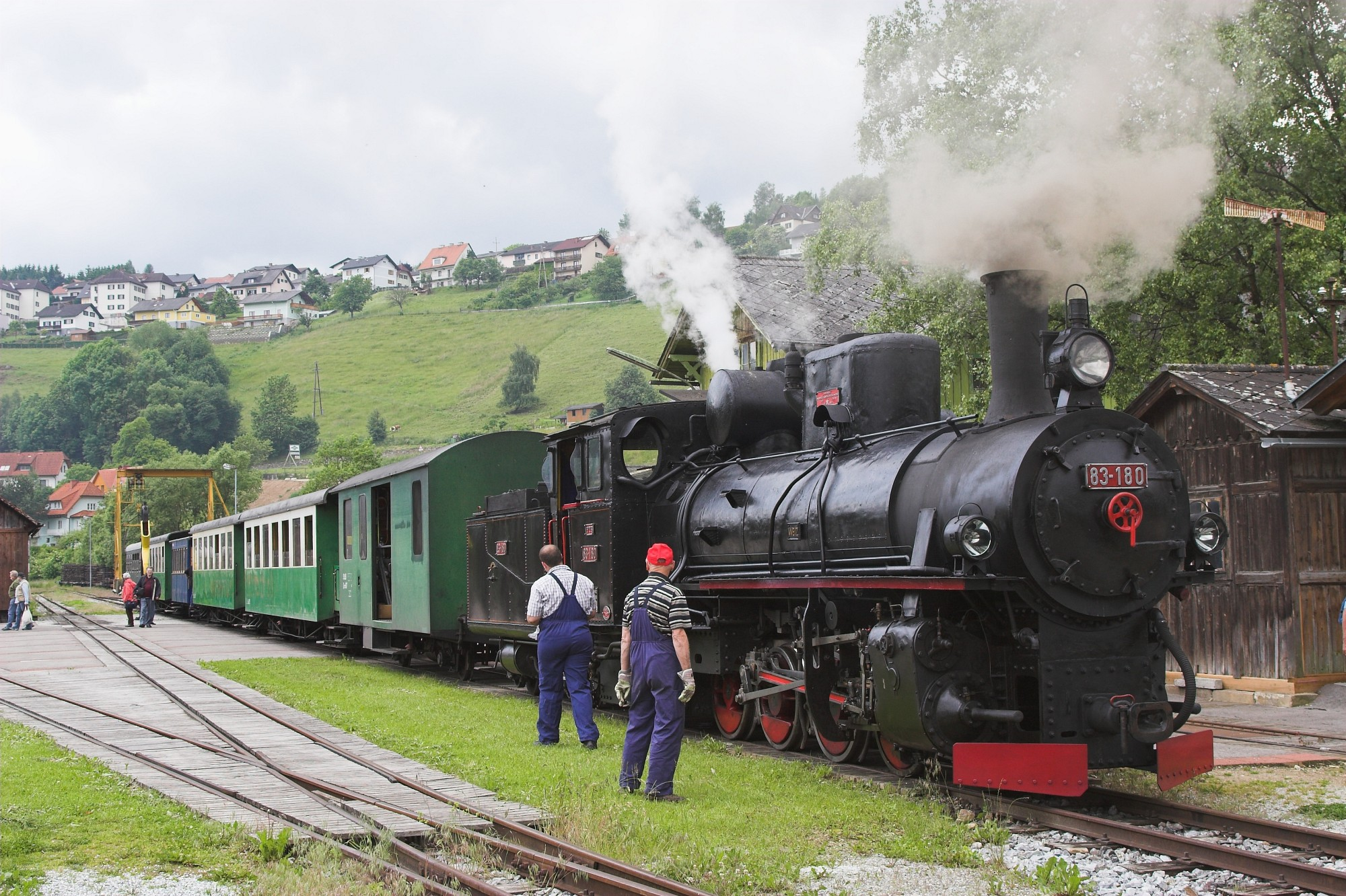 Feistritztalbahn train with 83-180 at Birkfeld station.